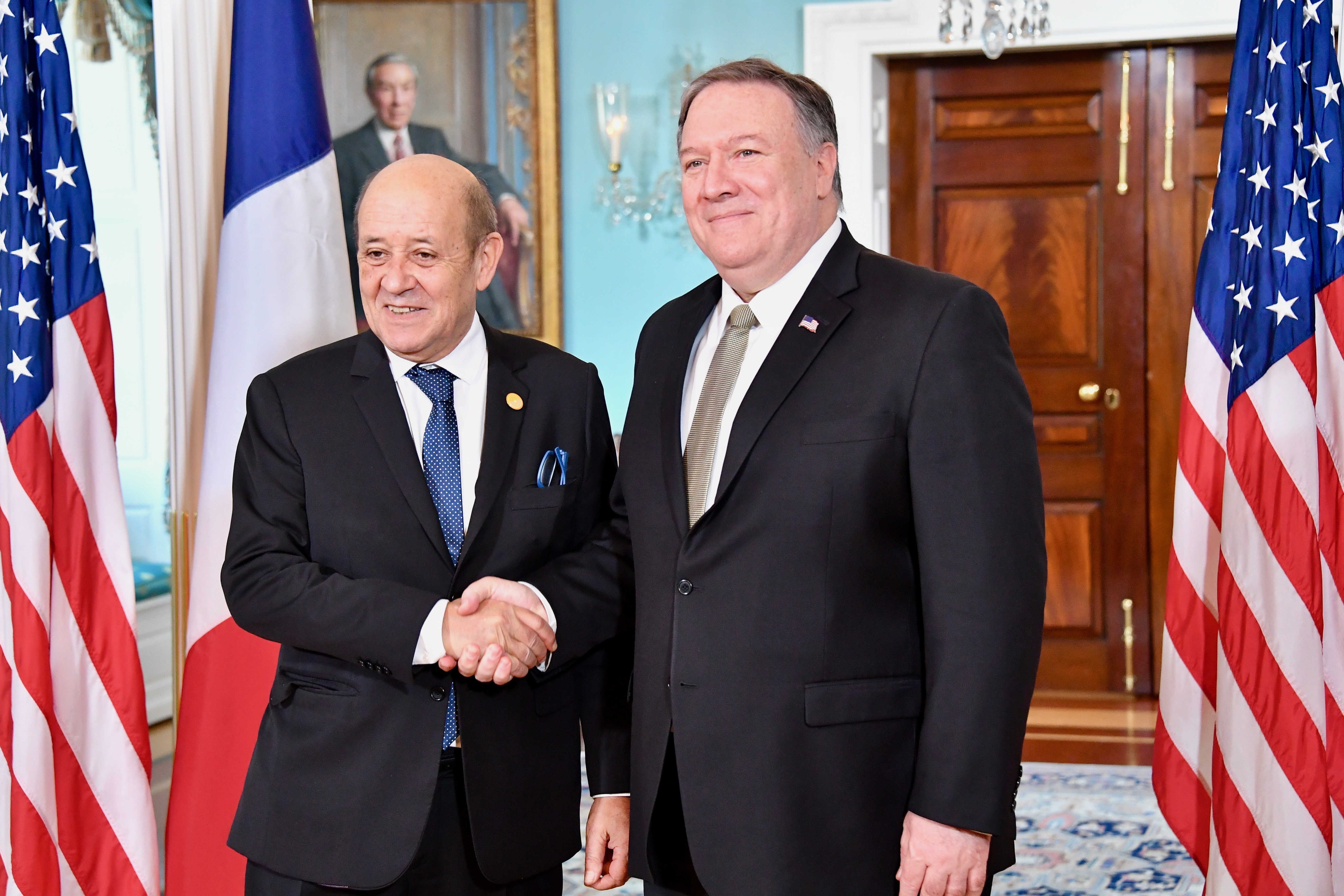 U.S. Secretary of State Michael R. Pompeo welcomes French Foreign Minister Jean- Yves Le Drian to the U.S. Department of State in Washington, D.C., on February 6, 2019. [State Department photo by Michael Gross/ Public Domain]